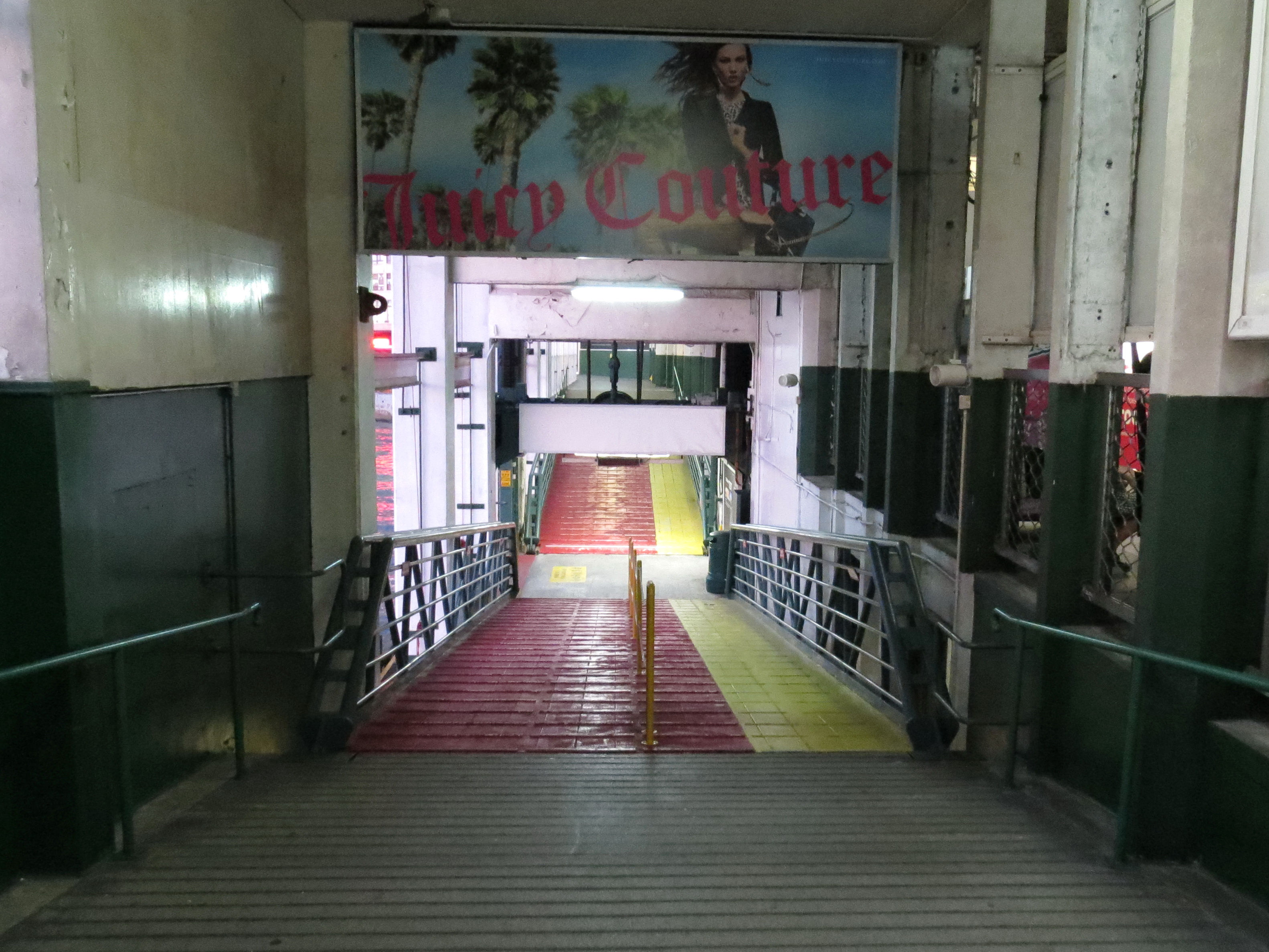 Tsim Sha Tsui Ferry Pier, boarding walkway, Hong Kong.